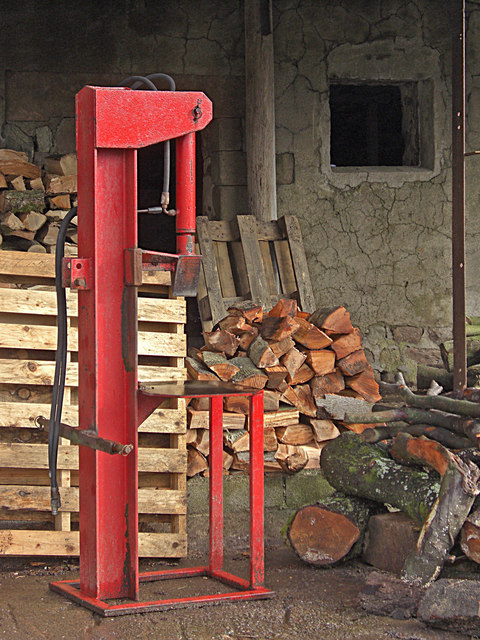 Mechanical log splitter, seen in the woodshed at Lower Thorneyholme Farm near Dunsop Bridge.